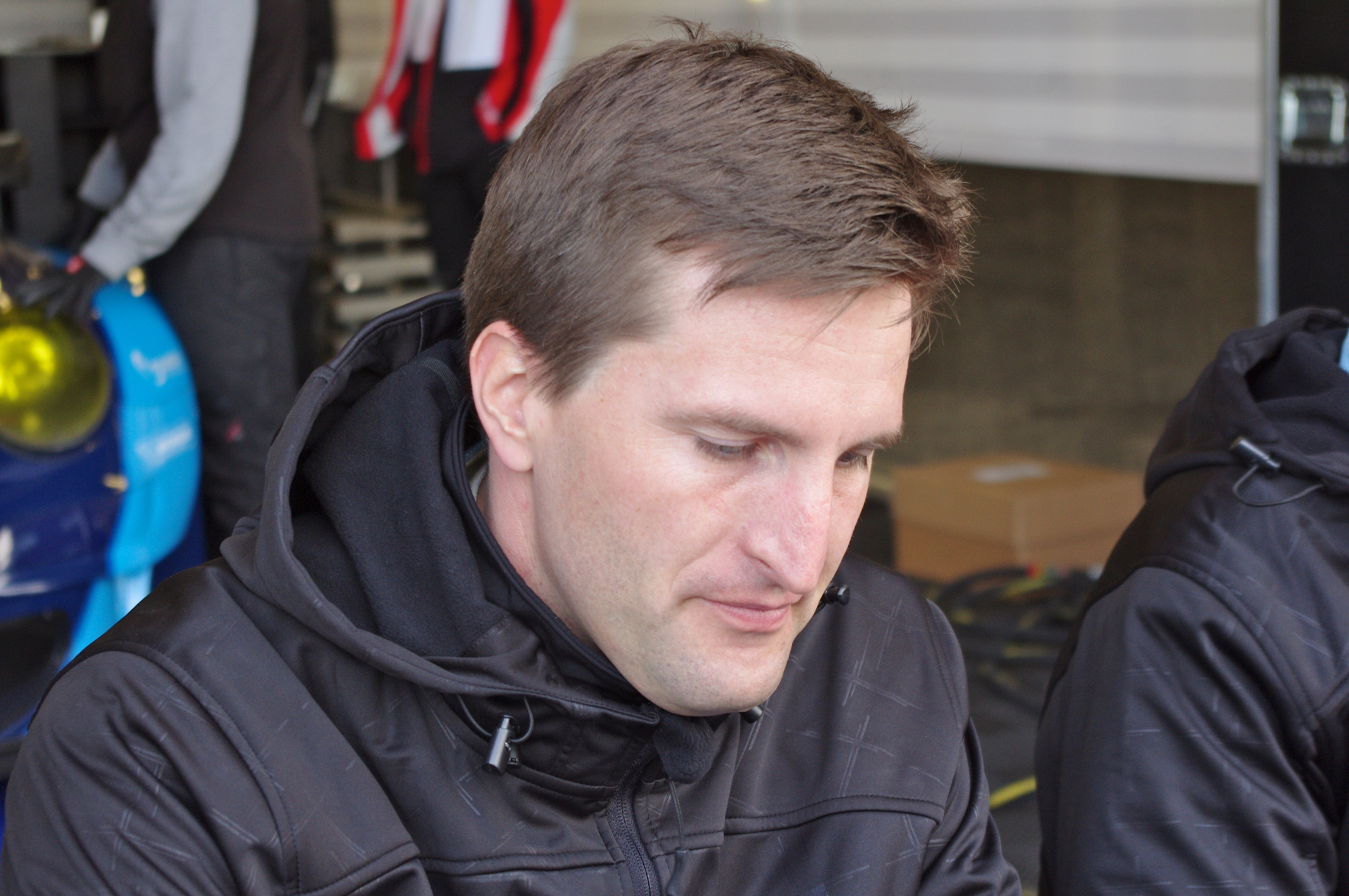 Silverstone 6 Hours 2013 FIA World Endurance Championship (WEC)